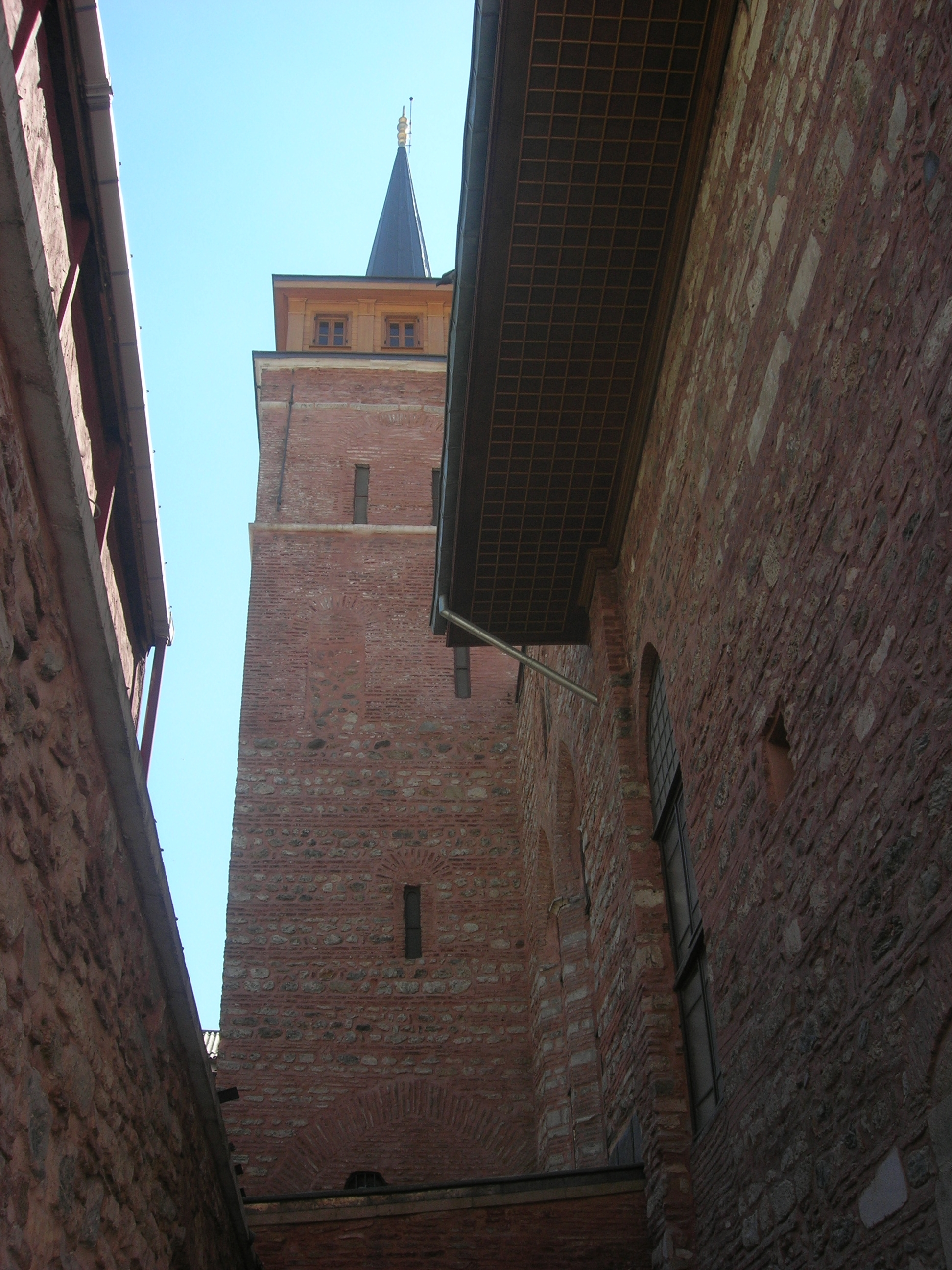 THe minaret of the Arap Mosque in Istanbul seen from the courtyard